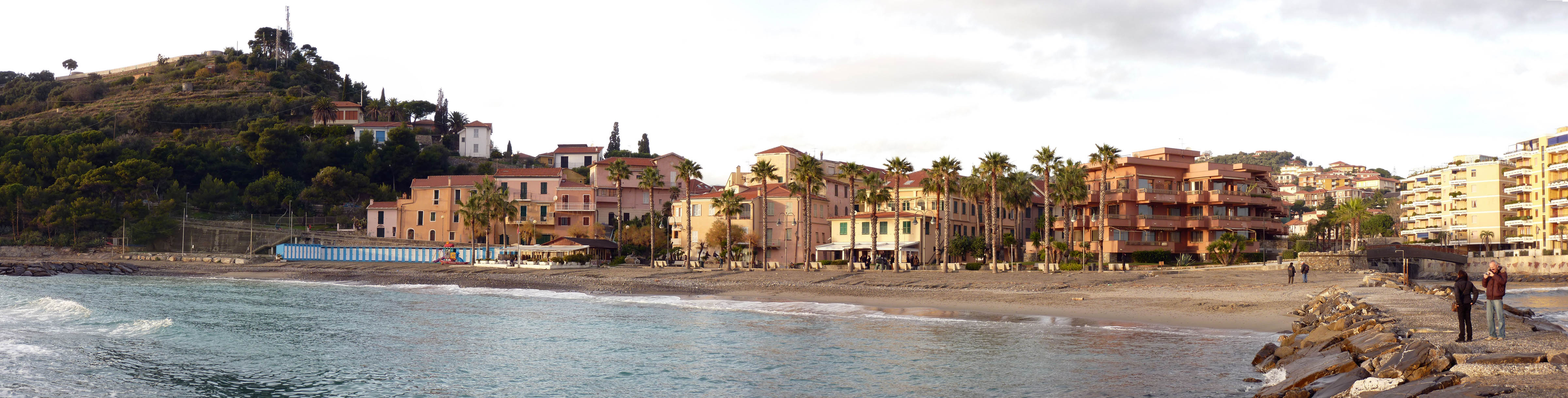 View from the sea of the old centre of San Lorenzo al Mare, in Liguria, Italy